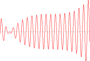 Plot of a highly oscillatory function.